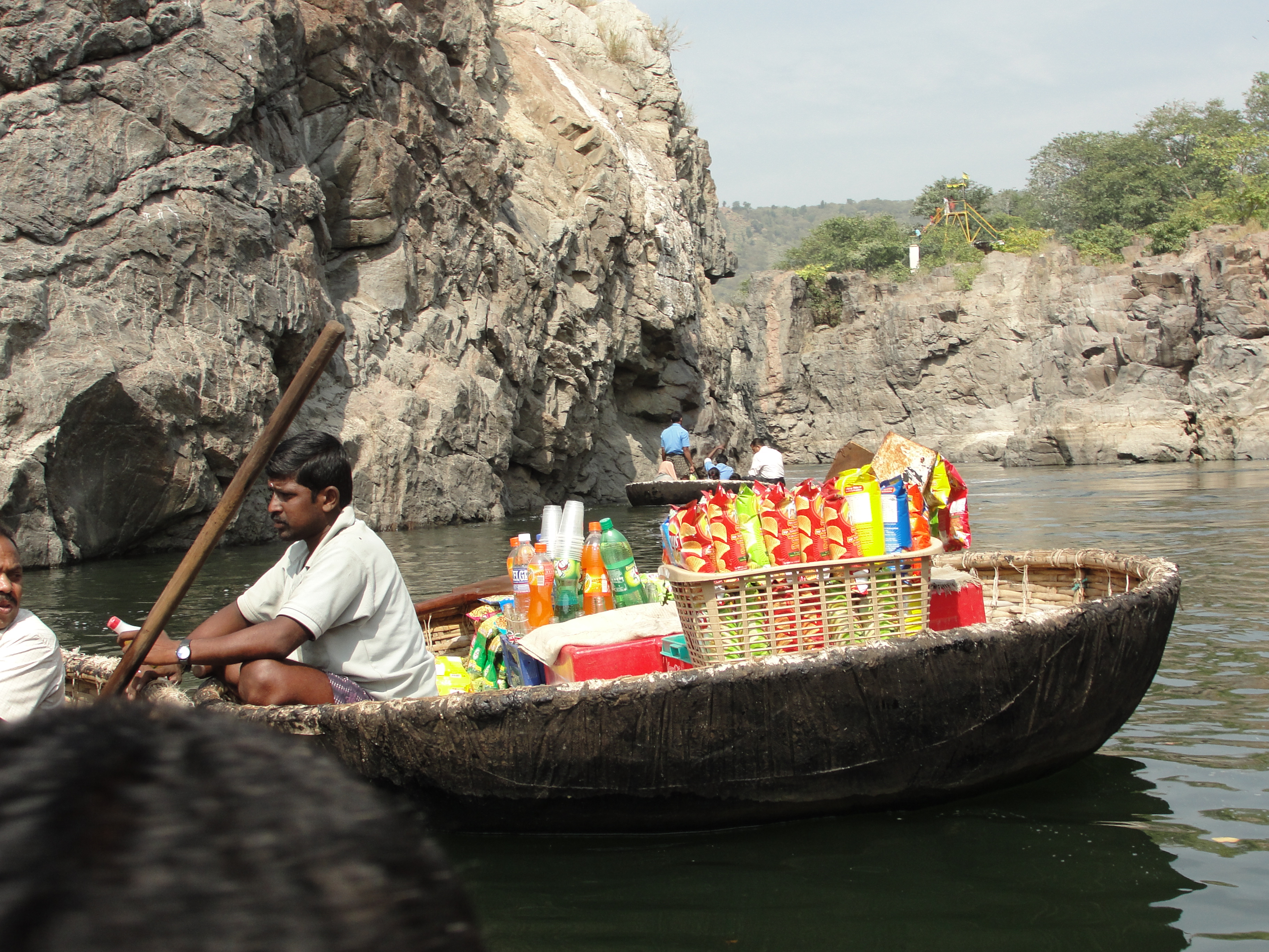 A vendor in coracle. Location: Hokenakal, Dharmapuri district, Tamil Nadu, India.